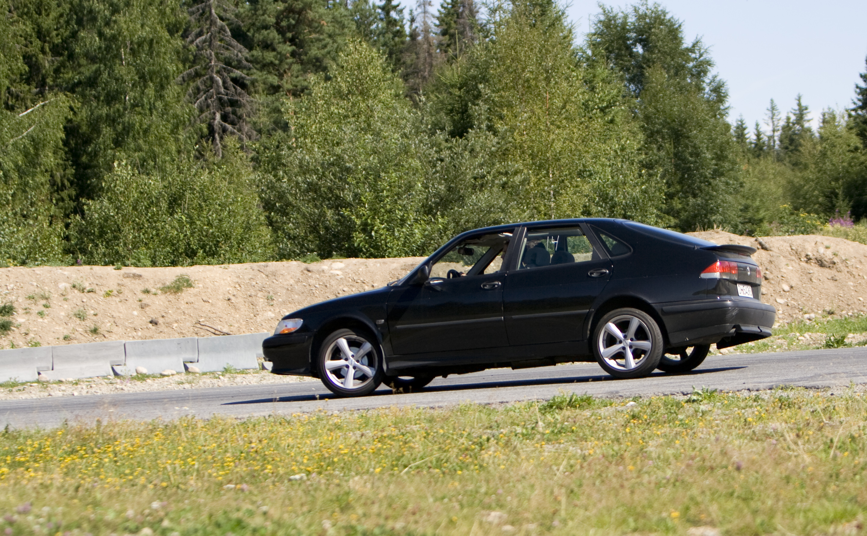 Saab 900 NG 5-door MY 1993–1998